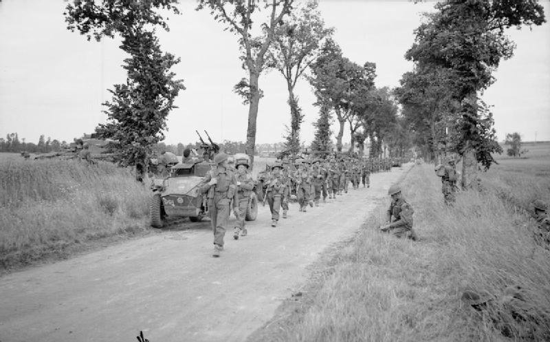 Men of the 8th Royal Scots move forward past a Humber scout car of 31st Tank Brigade during Operation 'Epsom', 28 June 1944.